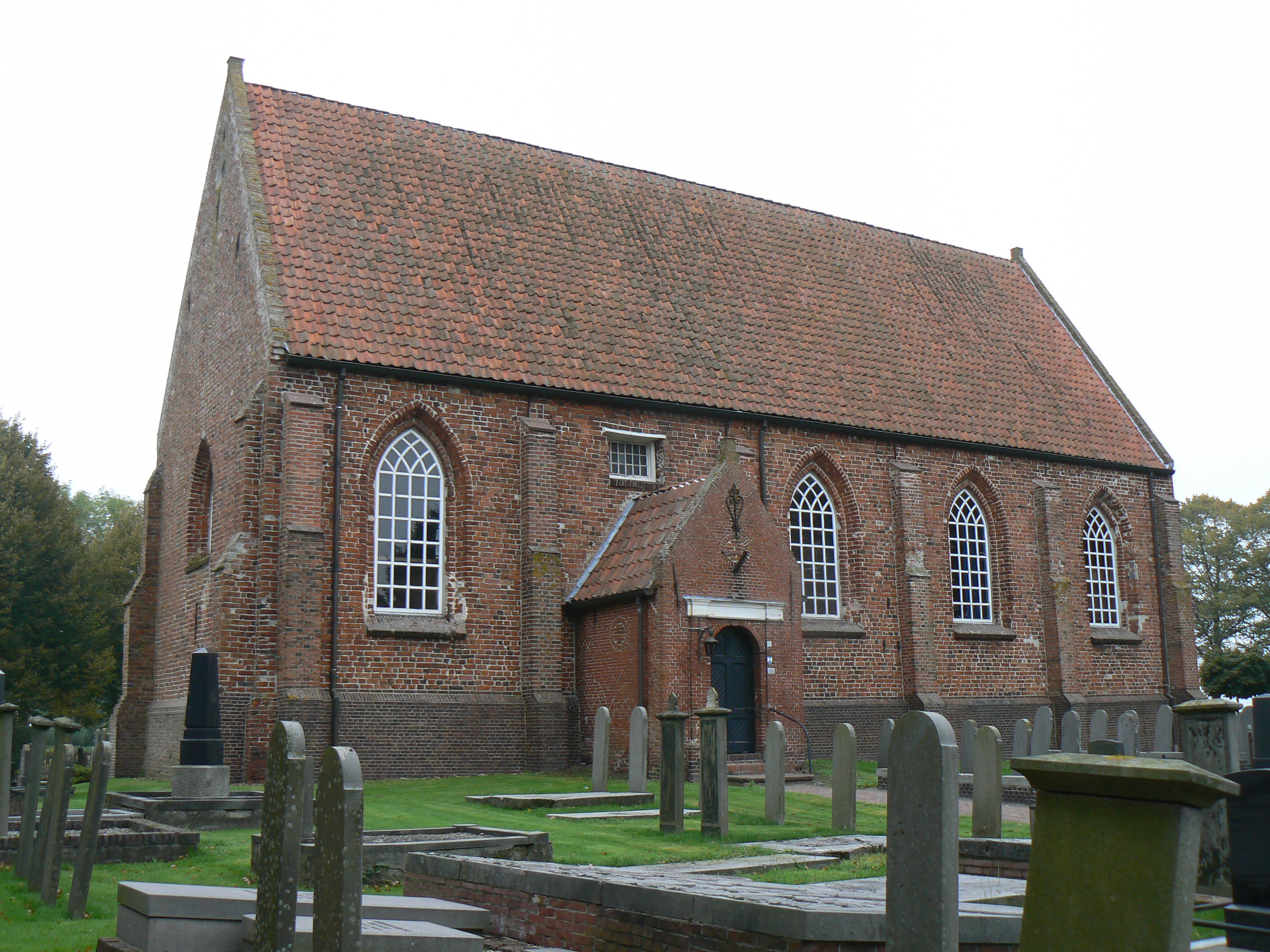 church (15th Century) in Meeden/The Netherlands